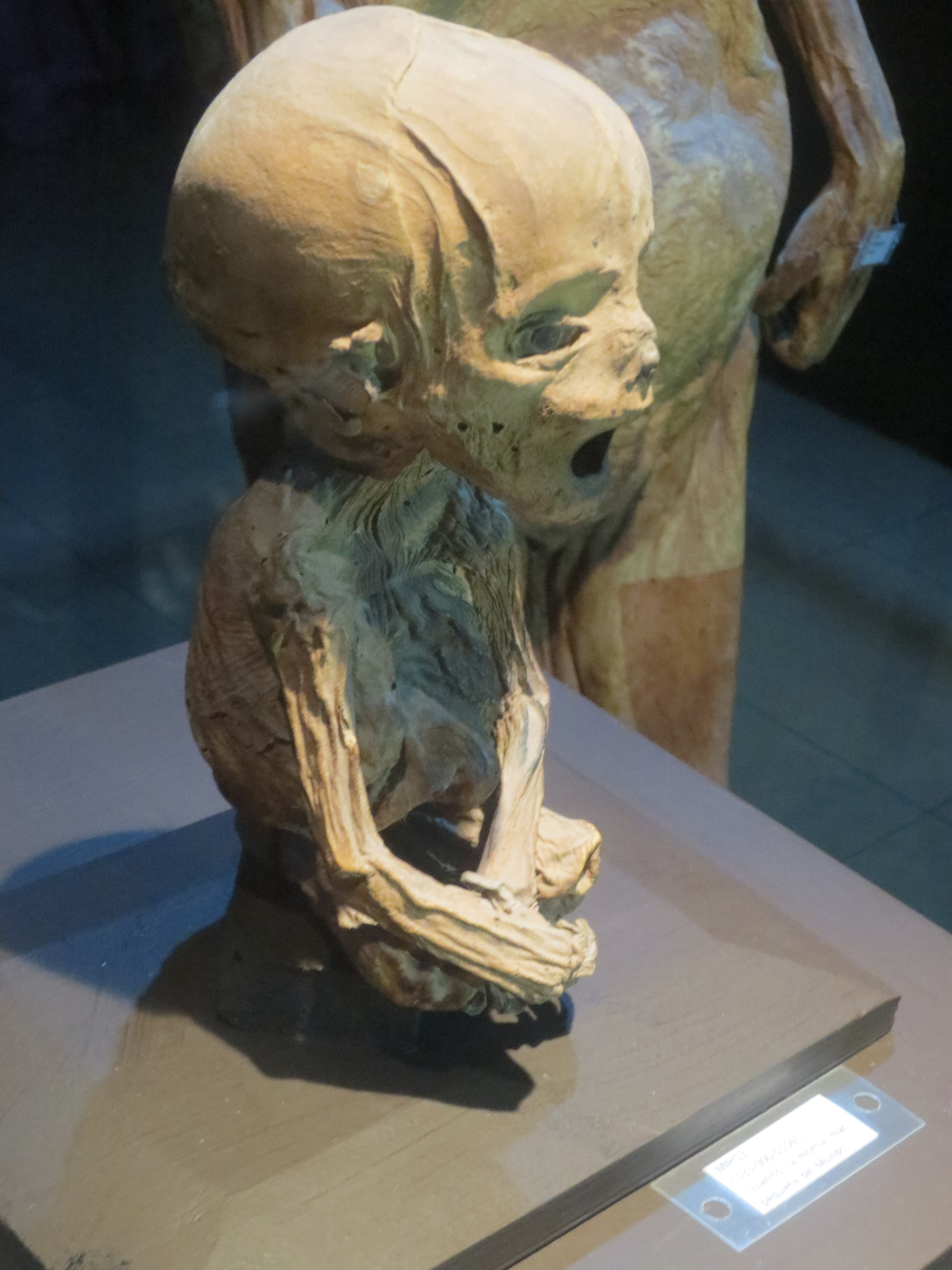 This is considered one of the smallest mummies in the museum.